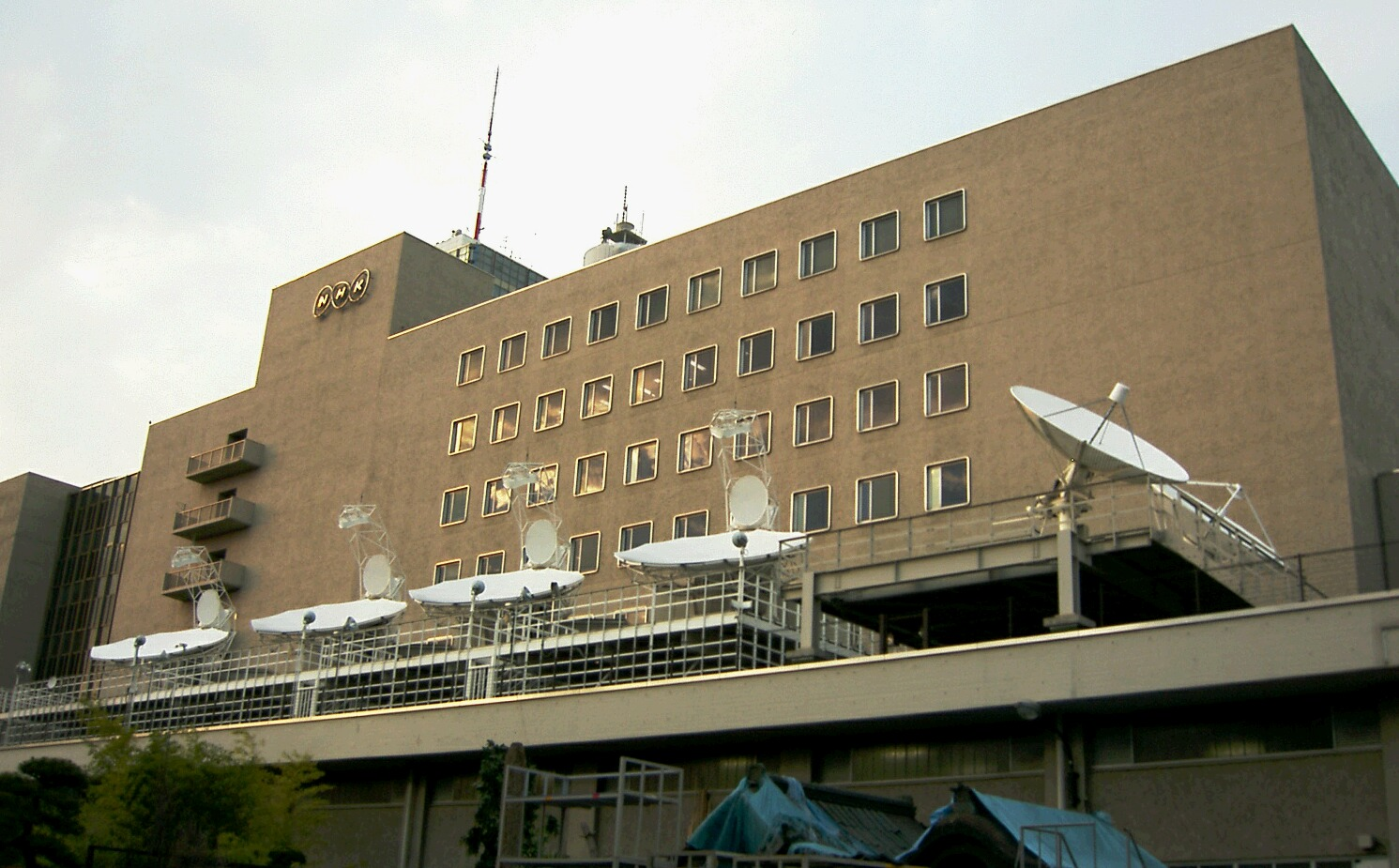 NHK_Broadcasting_Center_Parabola_antenna